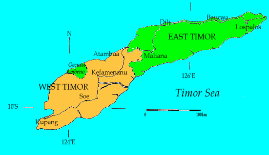 Map of Timor, designed by Boffin